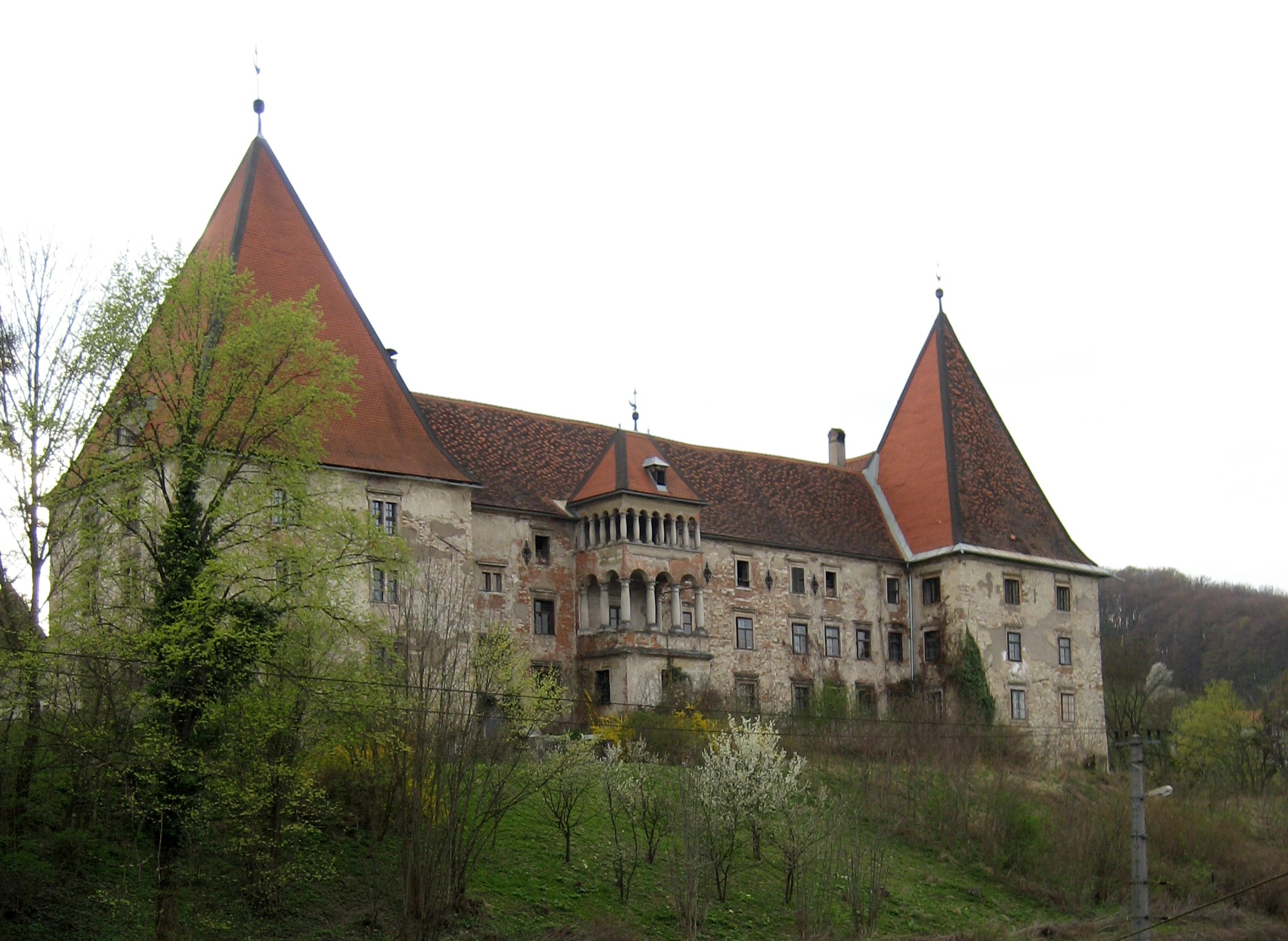 Spielfeld castle in Styria, Austria, Europe